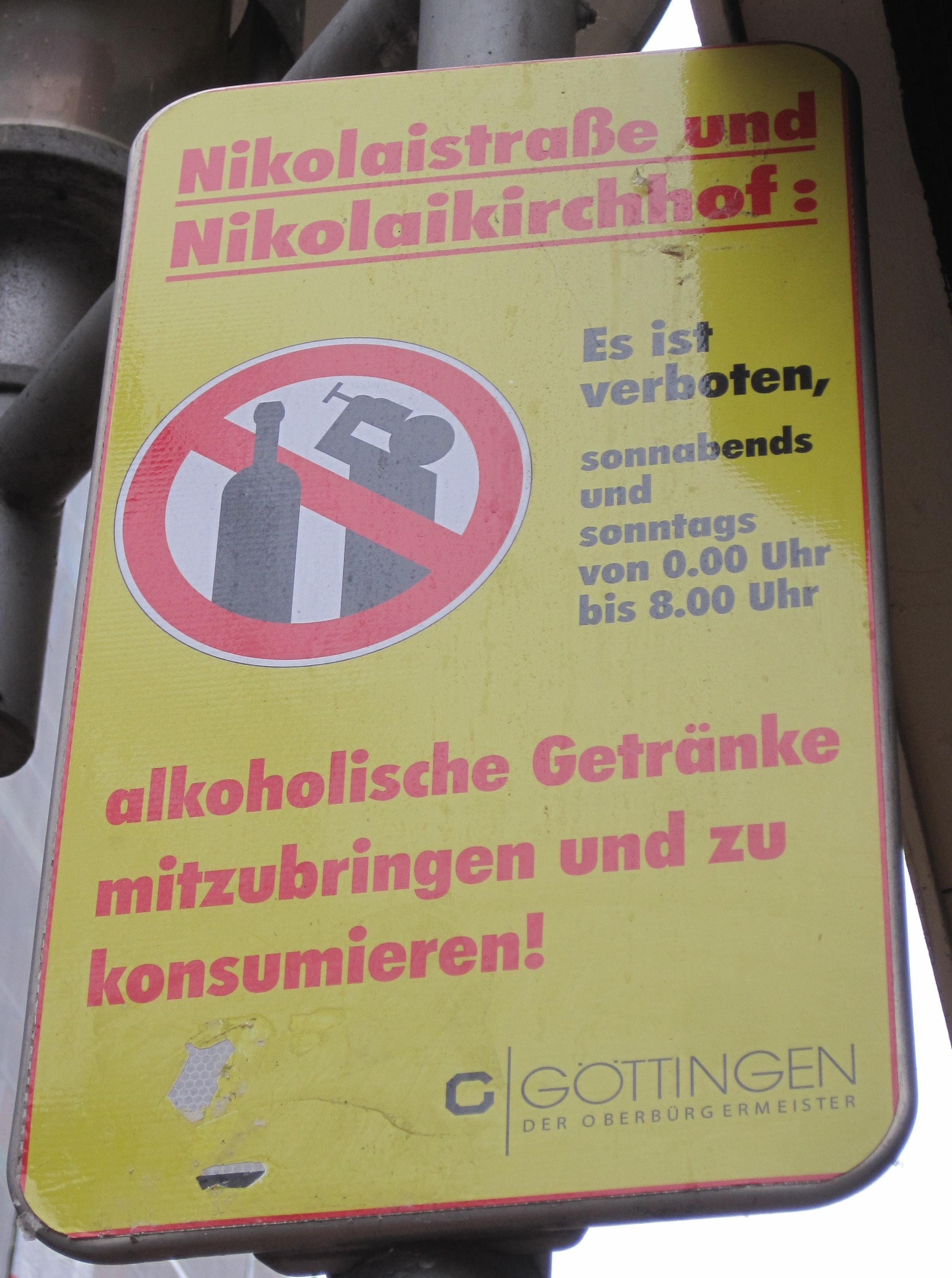 Alcohol prohibition sign Nikolaistraße, Göttingen, Germany check usage